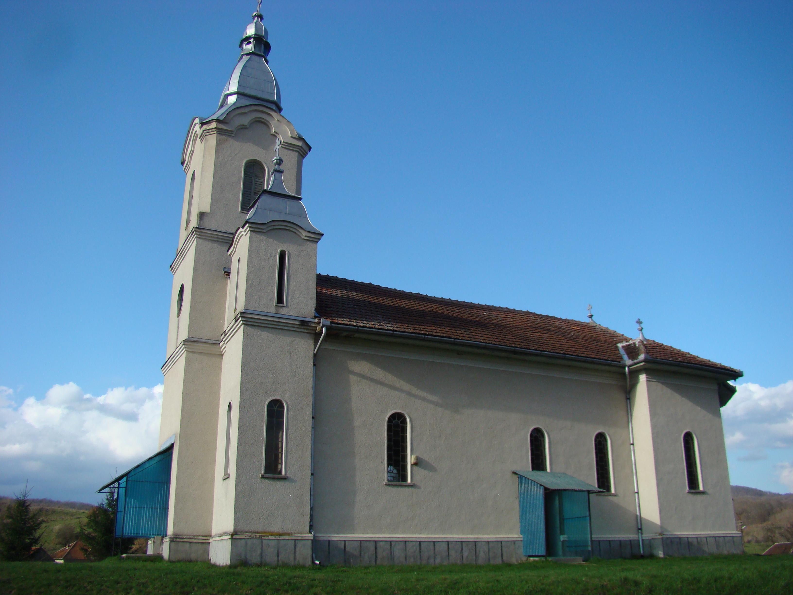 Rișculița, Hunedoara county, Romania